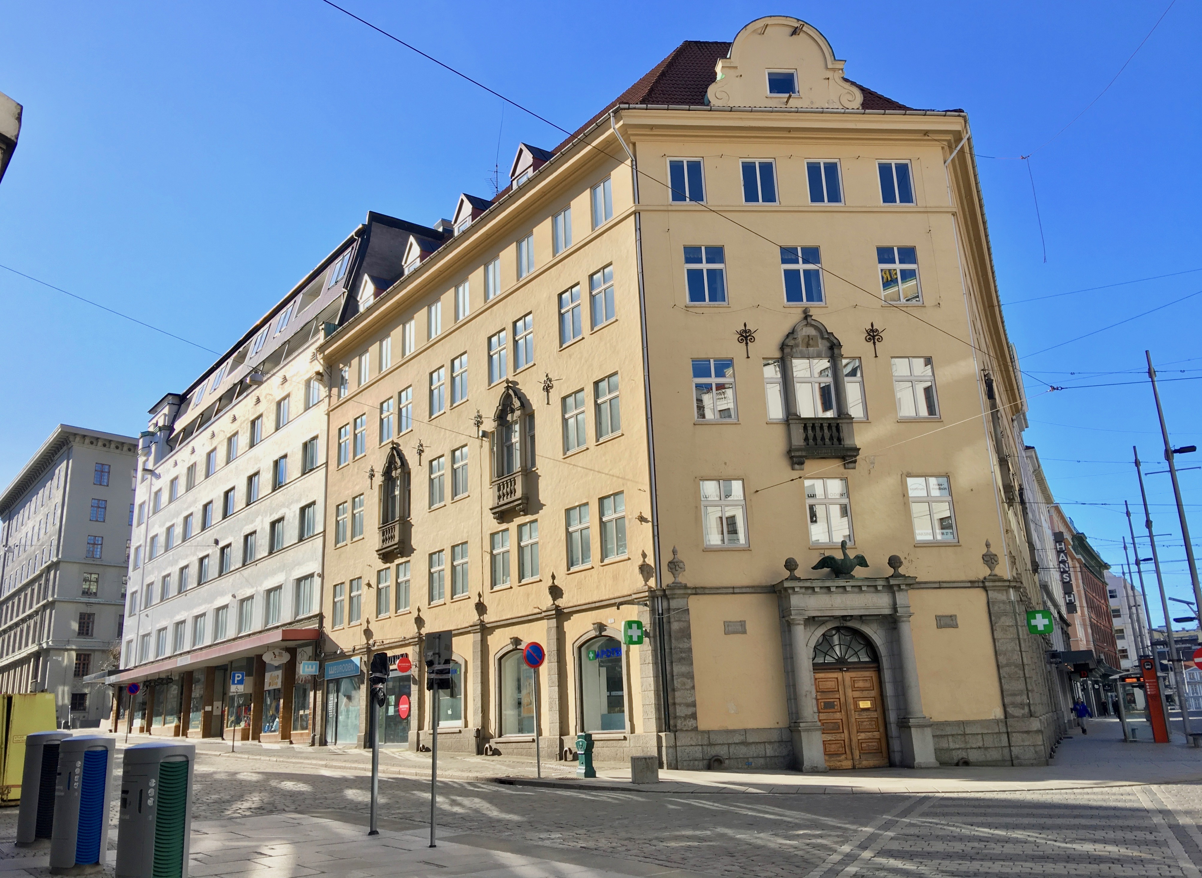 Apoteket Svanen / Svane-Apotheket (old drug store) at the corner of Christian Michelsens gate and Strandgaten streets in central Bergen, Norway. Photo 2018-03-18.